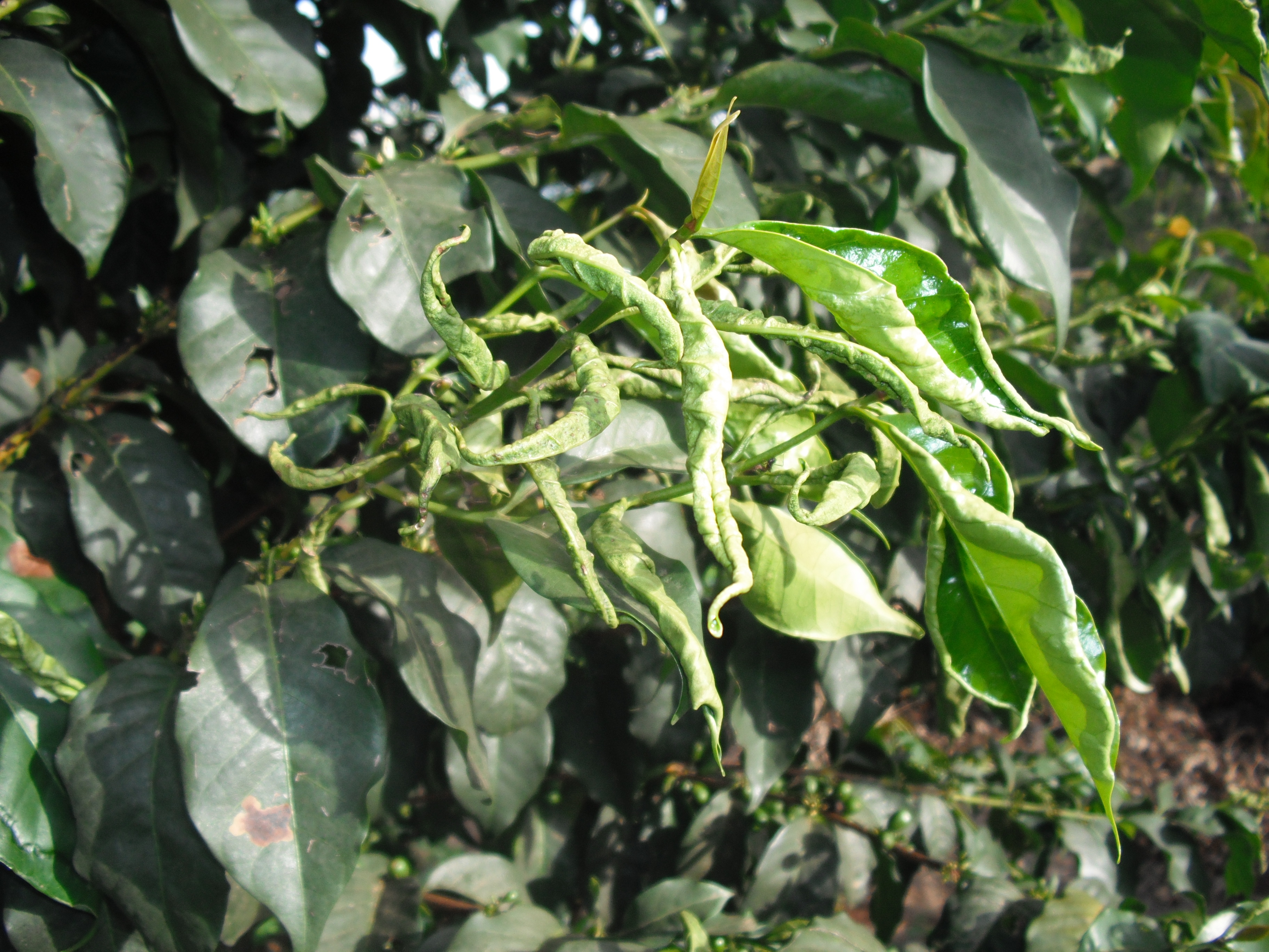 A photograph of the leaves of a coffee tree that are curled, seen in Rwanda. It was caused by Hoplandothrips, a species of thrips.